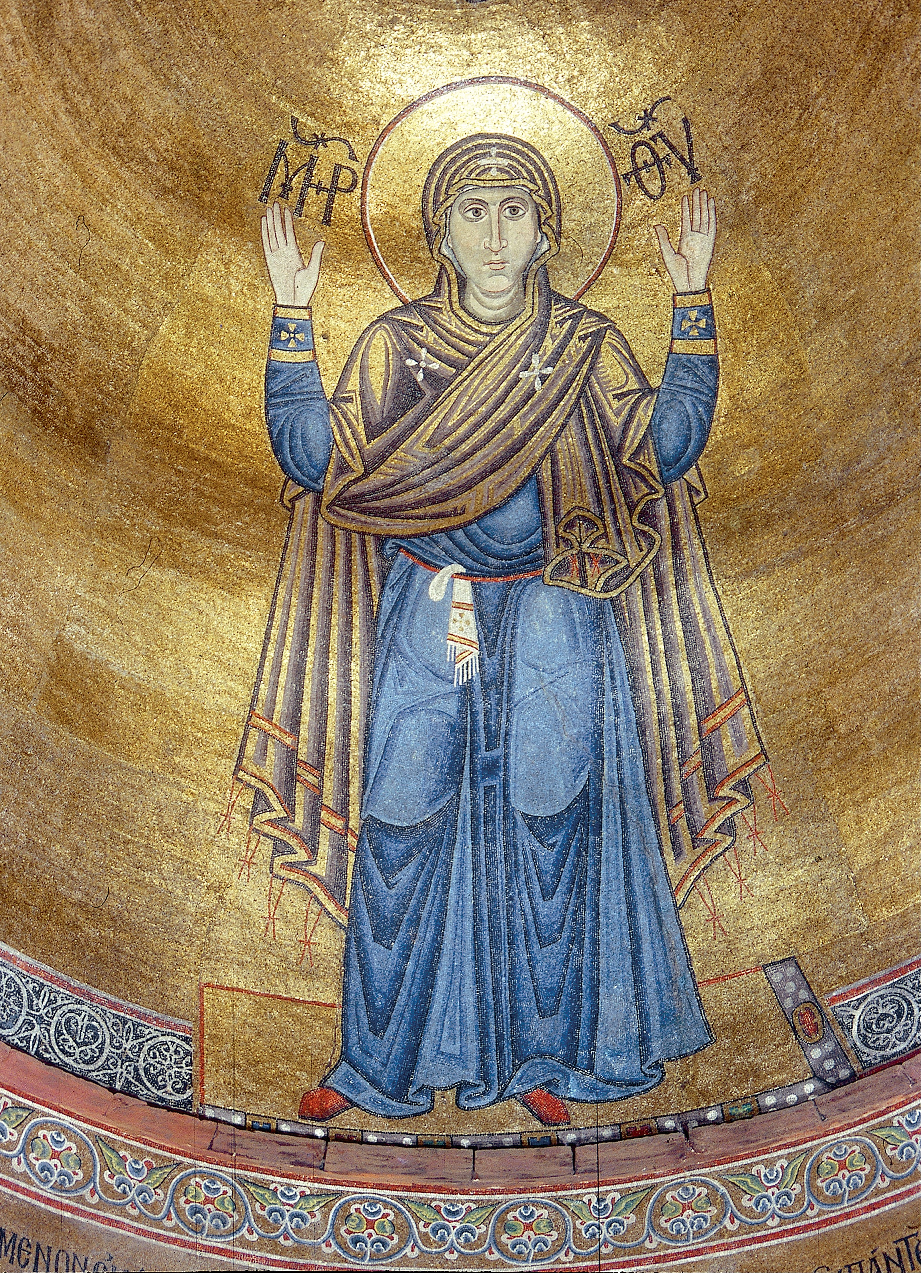 Its height is 6 m. Circa 2 mln of tesserae were used in a mosaic set. It is one biggest monumental examples of Old Rus art. “Orans” in Greek means “praying”. This image is one of the main iconographic types of the portrayal of the Virgin Mary that presents her image with her hands raised in prayer. The Virgin Orans is called “the Unbreakable Wall”. From ancient times it is believed that as long as the image of the Virgin Orans is in St. Sophia so long the city of Kyiv and all Rus stand.